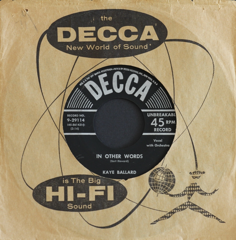 "In Other Words" performed by Kaye Ballard 45 rpm record in plain Decca sleeve released by Decca Records Inc. (Catalog Number 9-29114) in April 1954. Photo taken 15 April 2014.